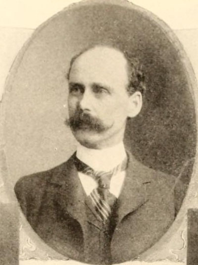 Portrait of New York assemblyman Otto Kelsey